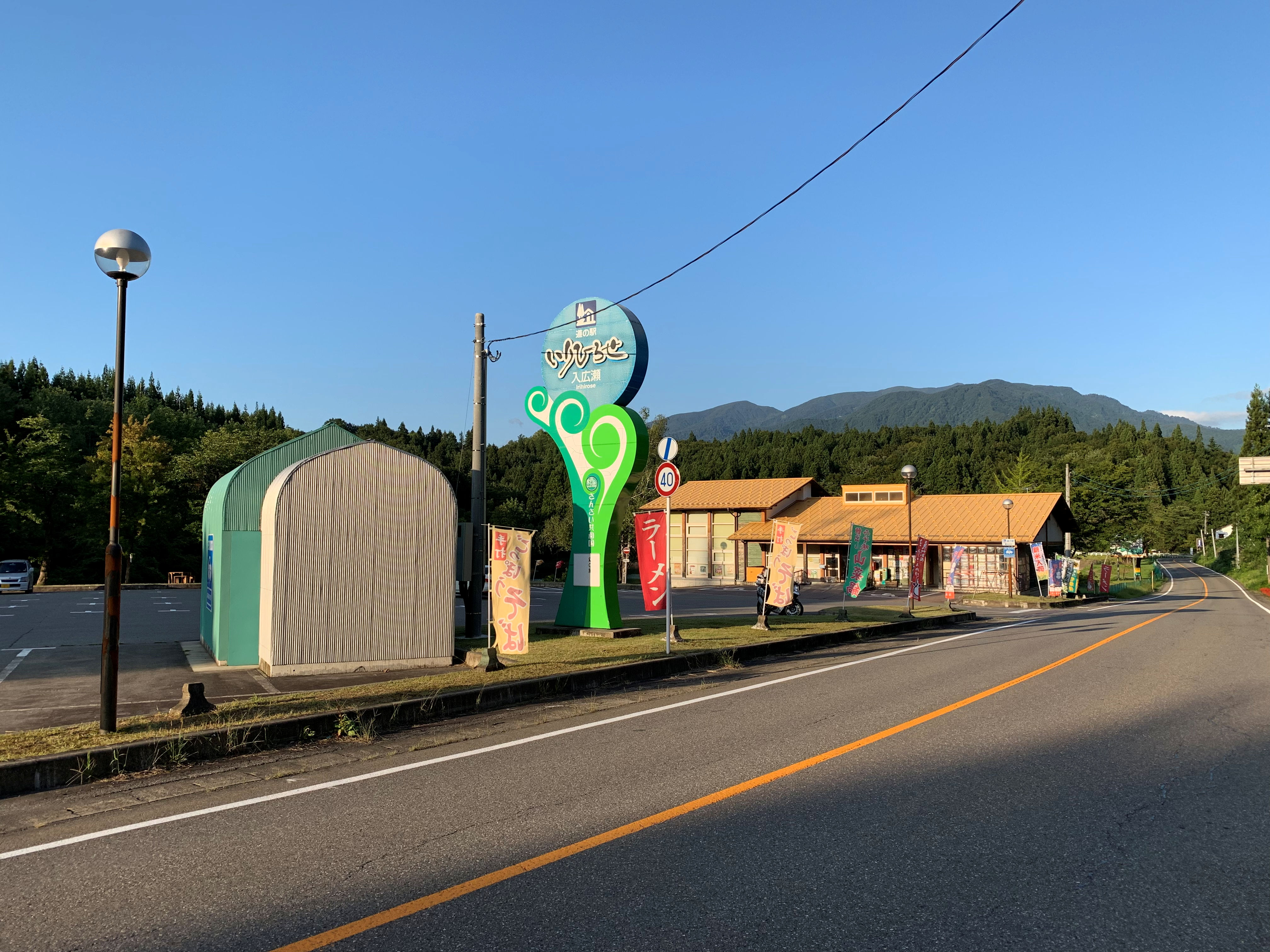 Irihirose, Michi no Eki (Roadside Station), Niigata, Japan. Took photo in September 2019.